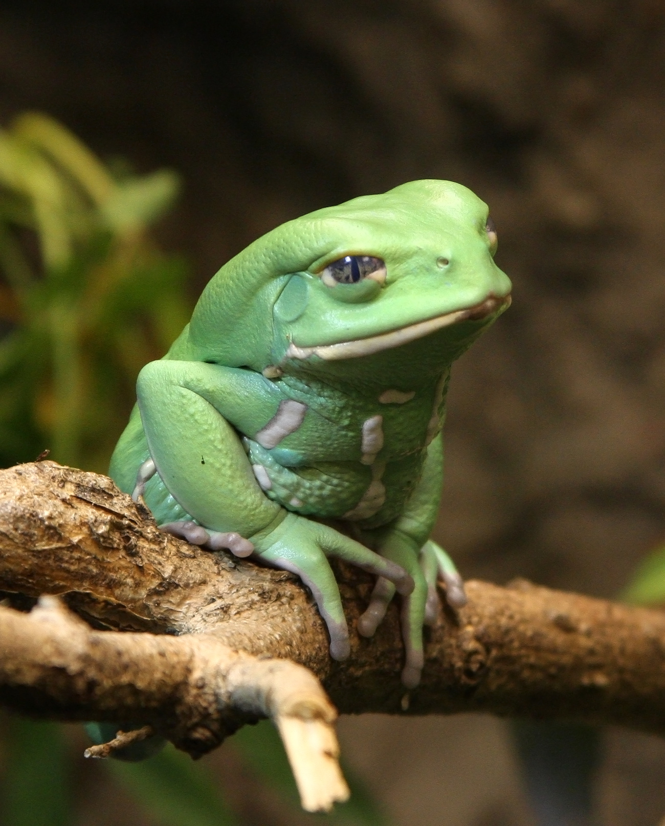 The waxy monkey leaf frog (Phyllomedusa sauvagii)